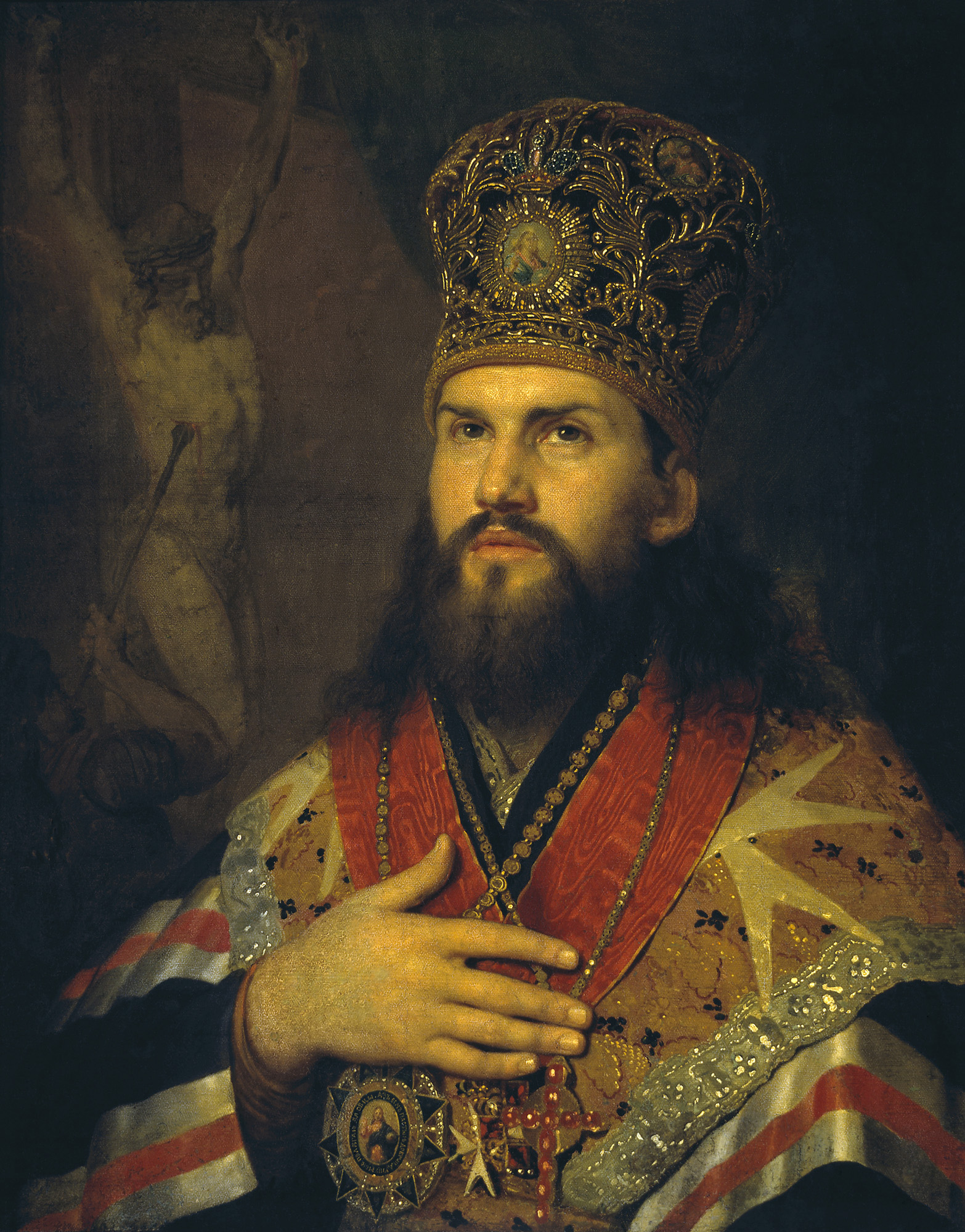 Metropolitan Mikhail (Desnitsky)